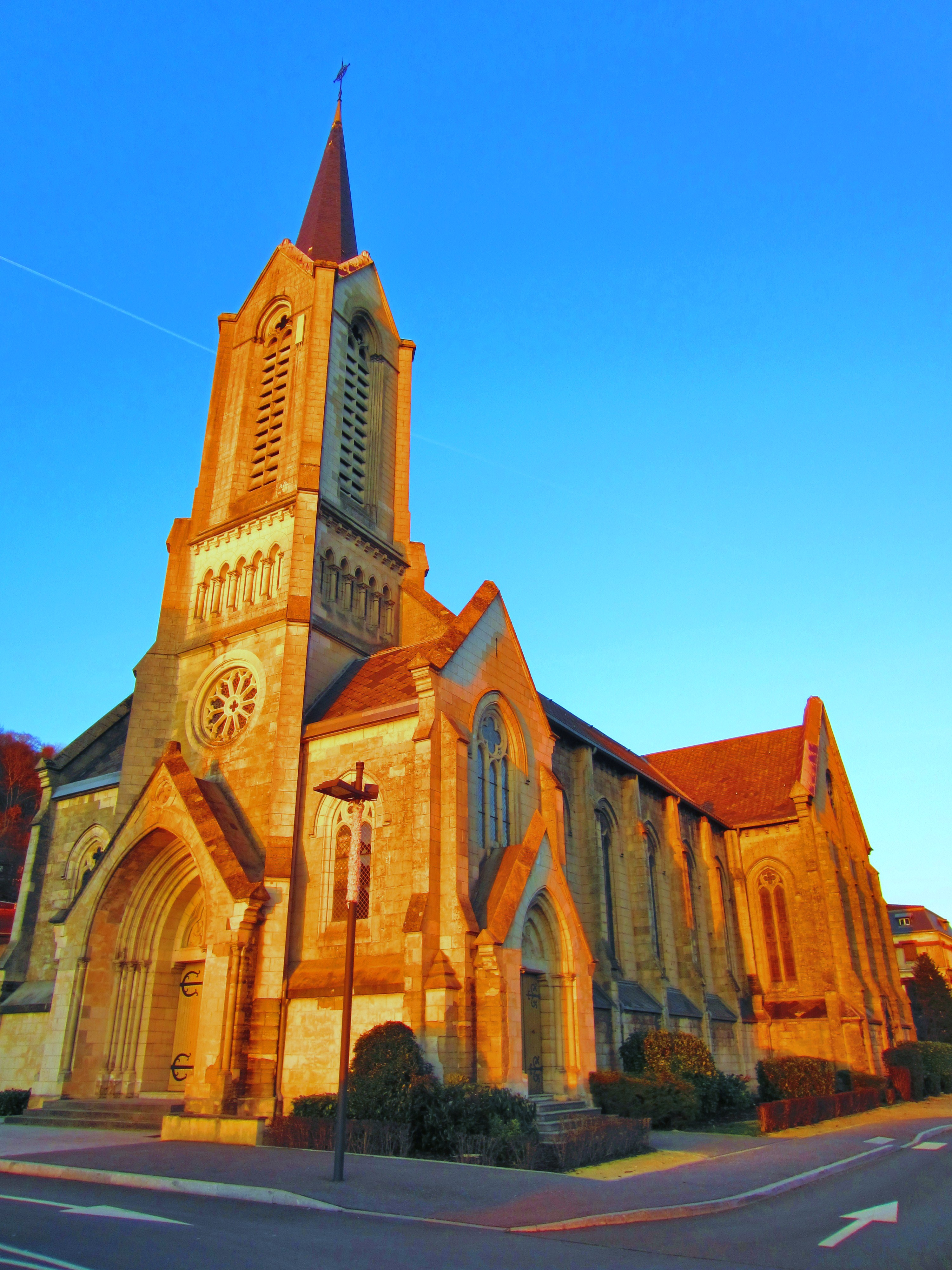 Herserange church